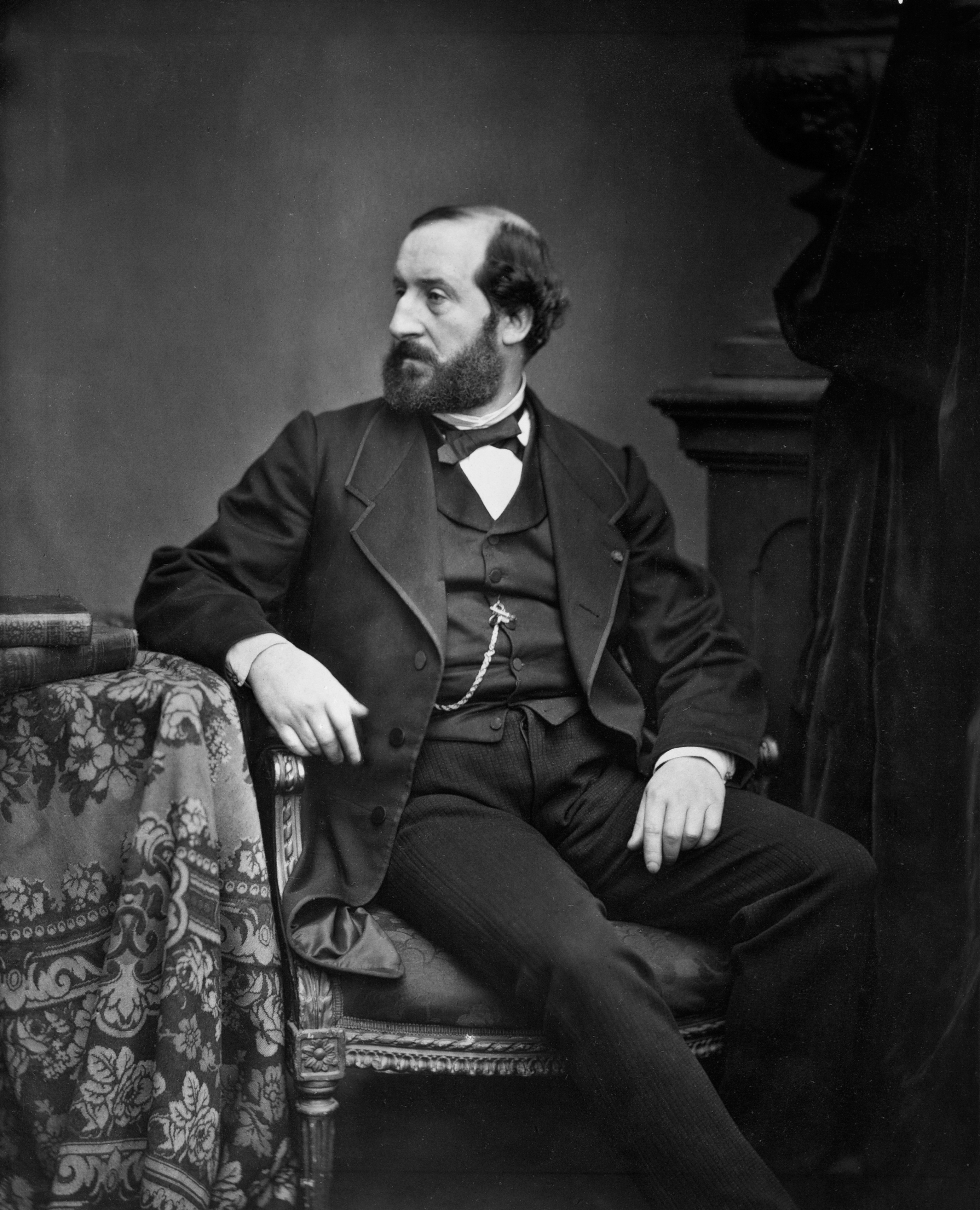 Woodburytype of Émile Augier